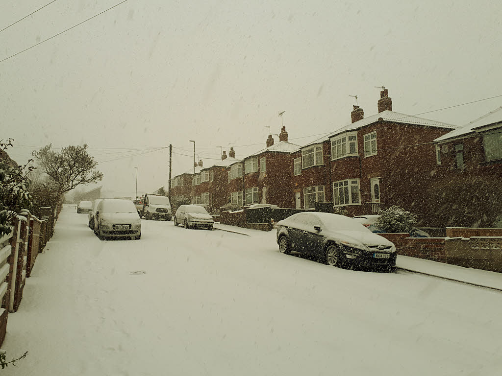 The Beast from the East hits Bramley